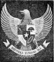 The winner of Republik Indonesia Serikat (United States of Indonesia) Coat of Arms, 1950. Designed by Sultan Hamid II of Pontianak.